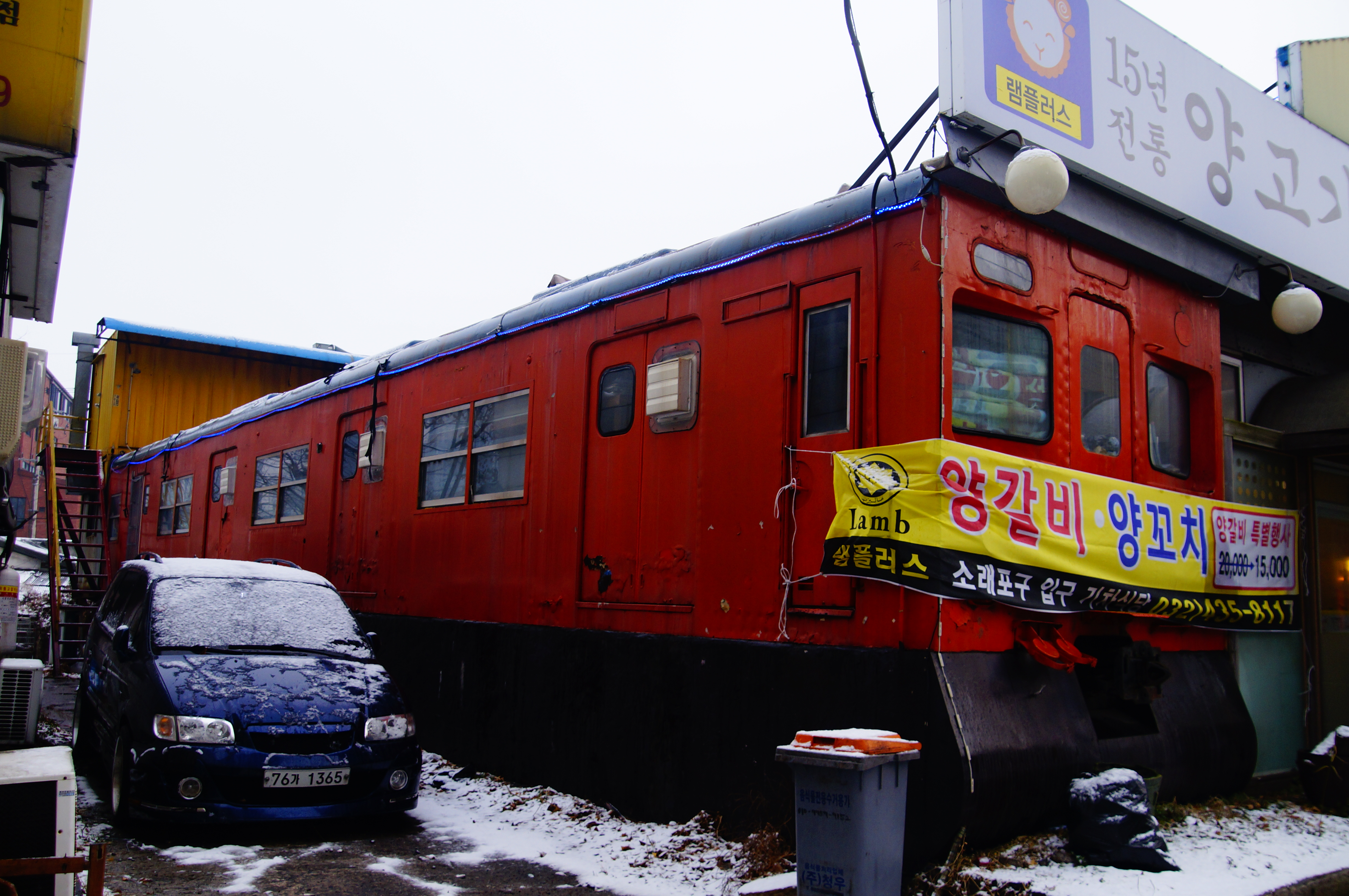 Korail Class 1000 car 1106 preserved at a local restaurant near Sorae, Incheon.